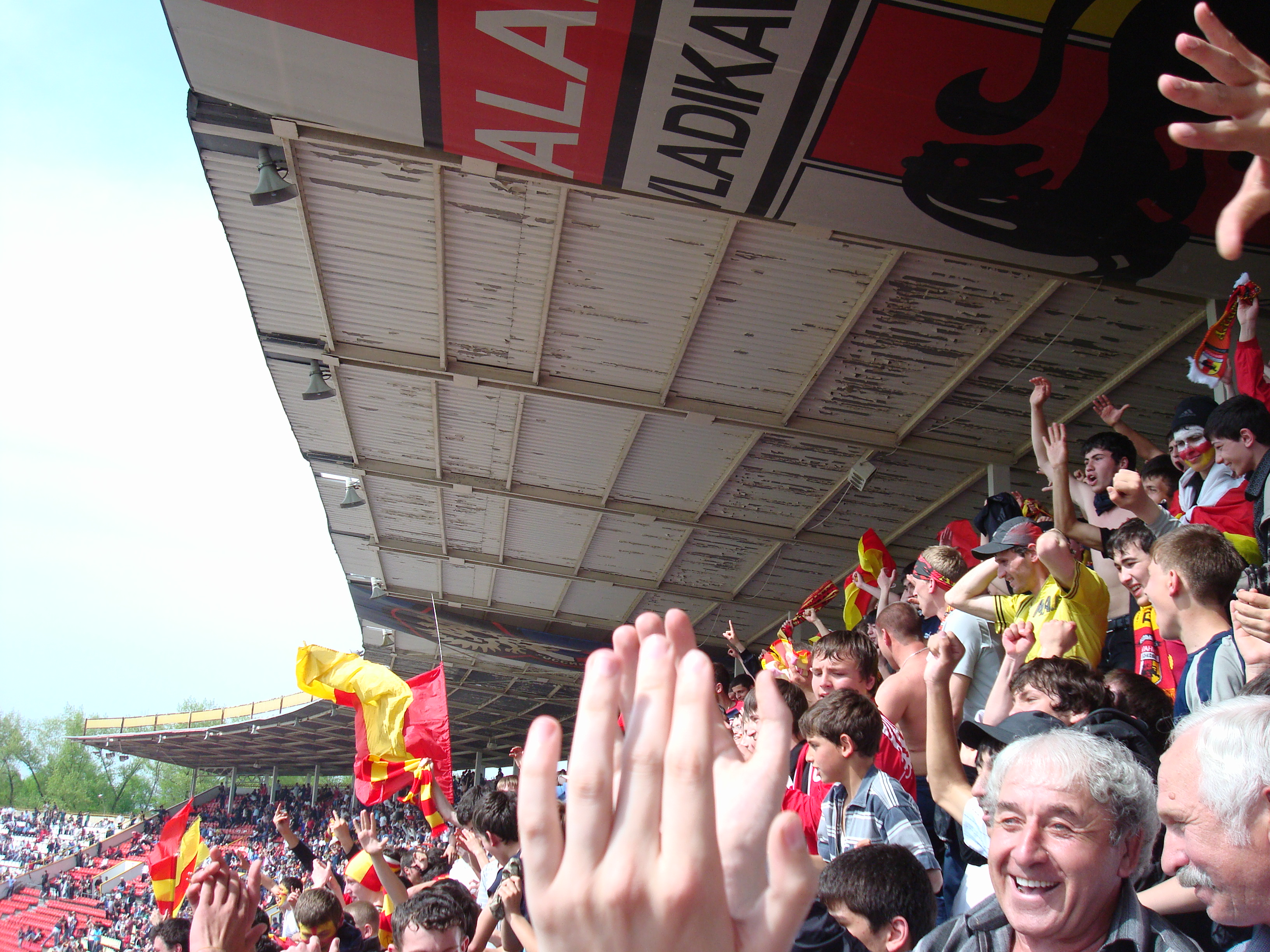 FC Alania Vladikavkaz supporters